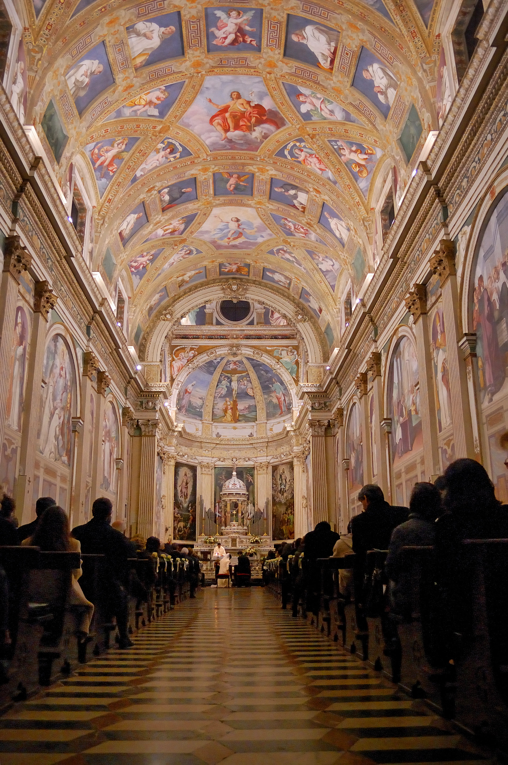 Central nave of Garegnano Church in Milan, Italy, during a Marriage.